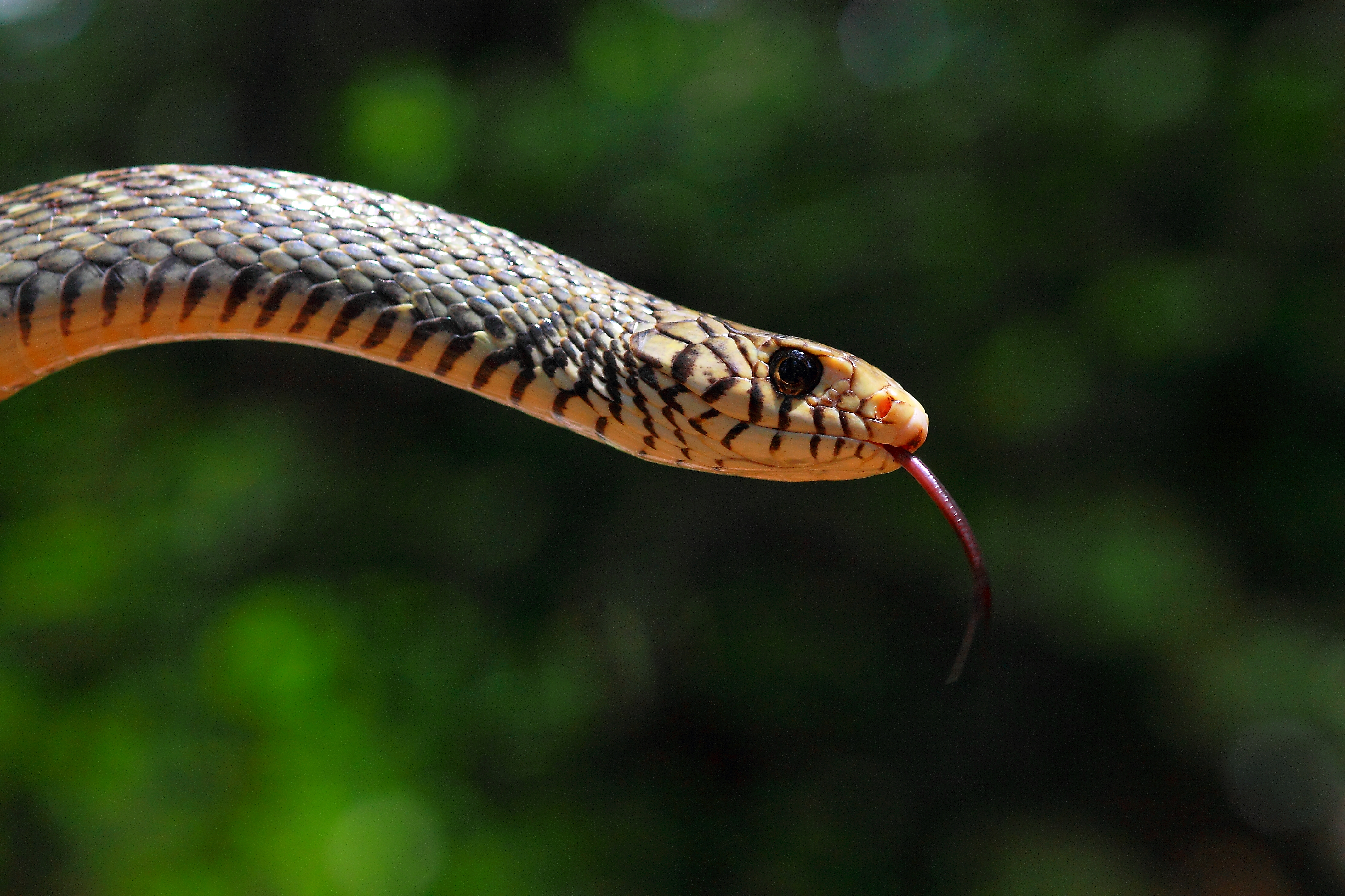 King Cobra, Bangladesh